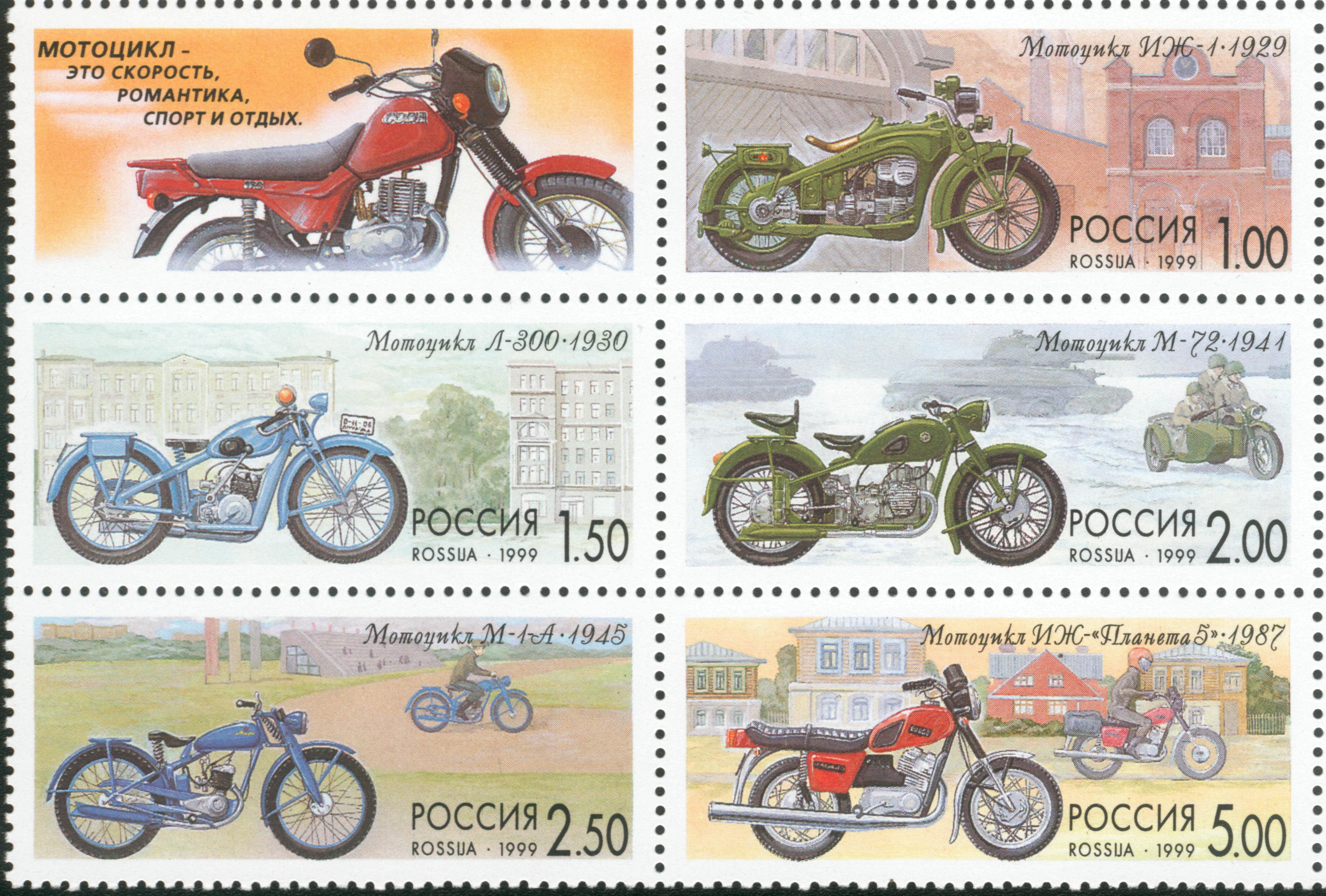 Stamps of Russia History of the native motorcycle, 1999